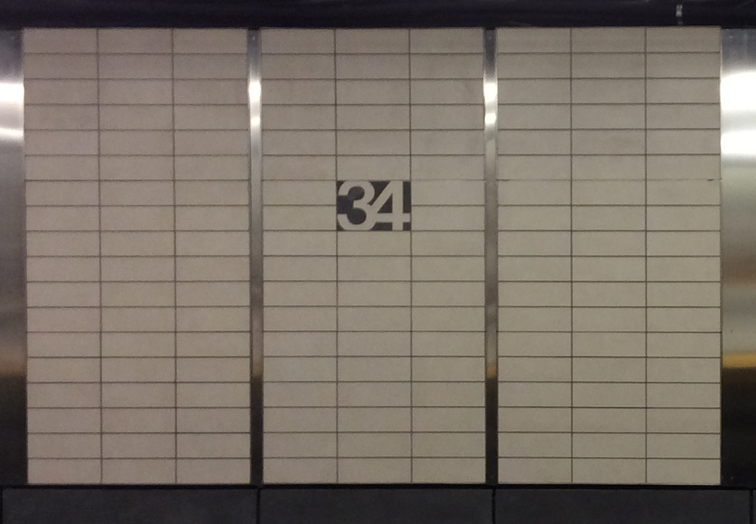 The 34th Street-Hudson Yards subway station, September 16, 2015